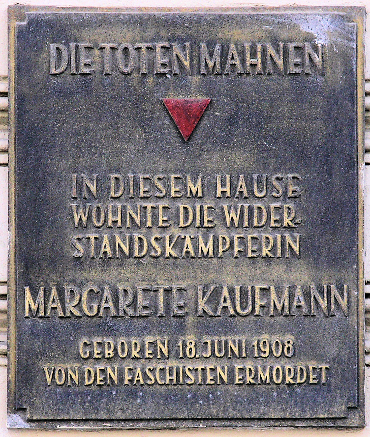 Memorial plaque, Margarete Kaufmann, Linienstraße 154a, Berlin-Mitte, Germany Koordinate:52°31′39.2″N 13°23′35.8″E / 52.527556°N 13.393278°E